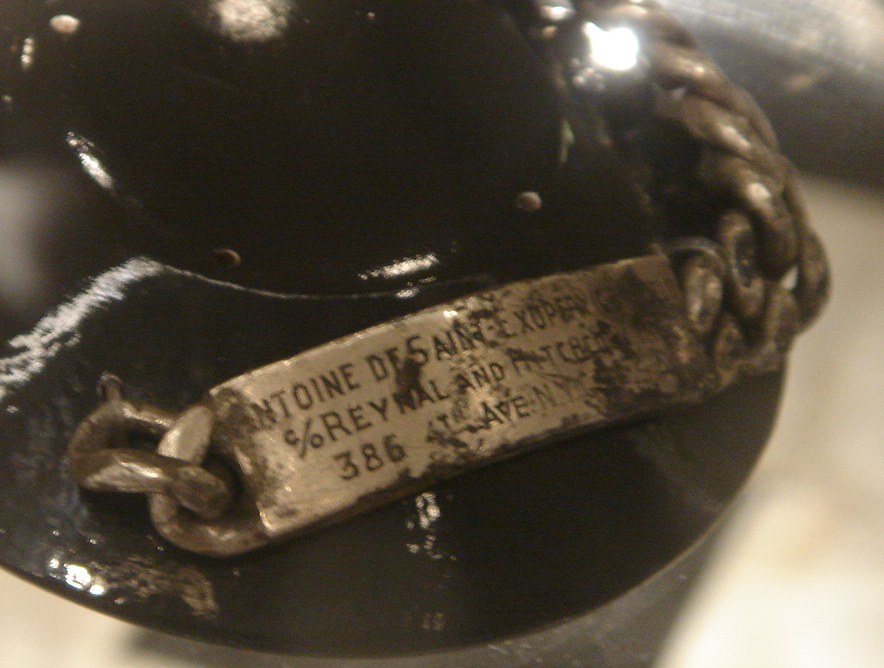 Bracelet of Saint-Exupéry found by the fisherman Jean-Claude Bianco in 1998.